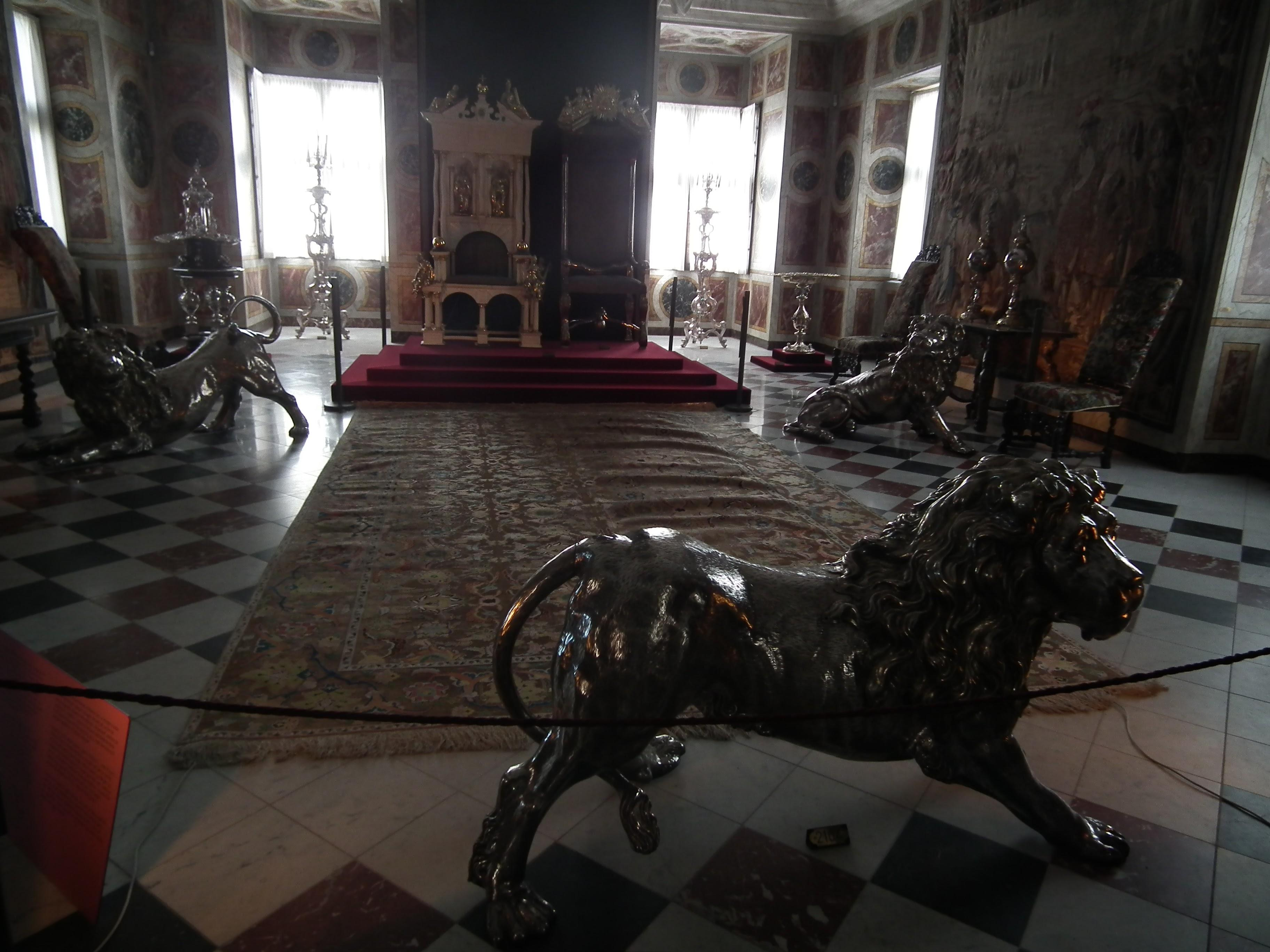 Knight's Hall in Rosenborg Castle, Copenhagen. Coronation chair of the absolutist kings and the throne of the queens. The coronation carpet is laid in front of the thrones.